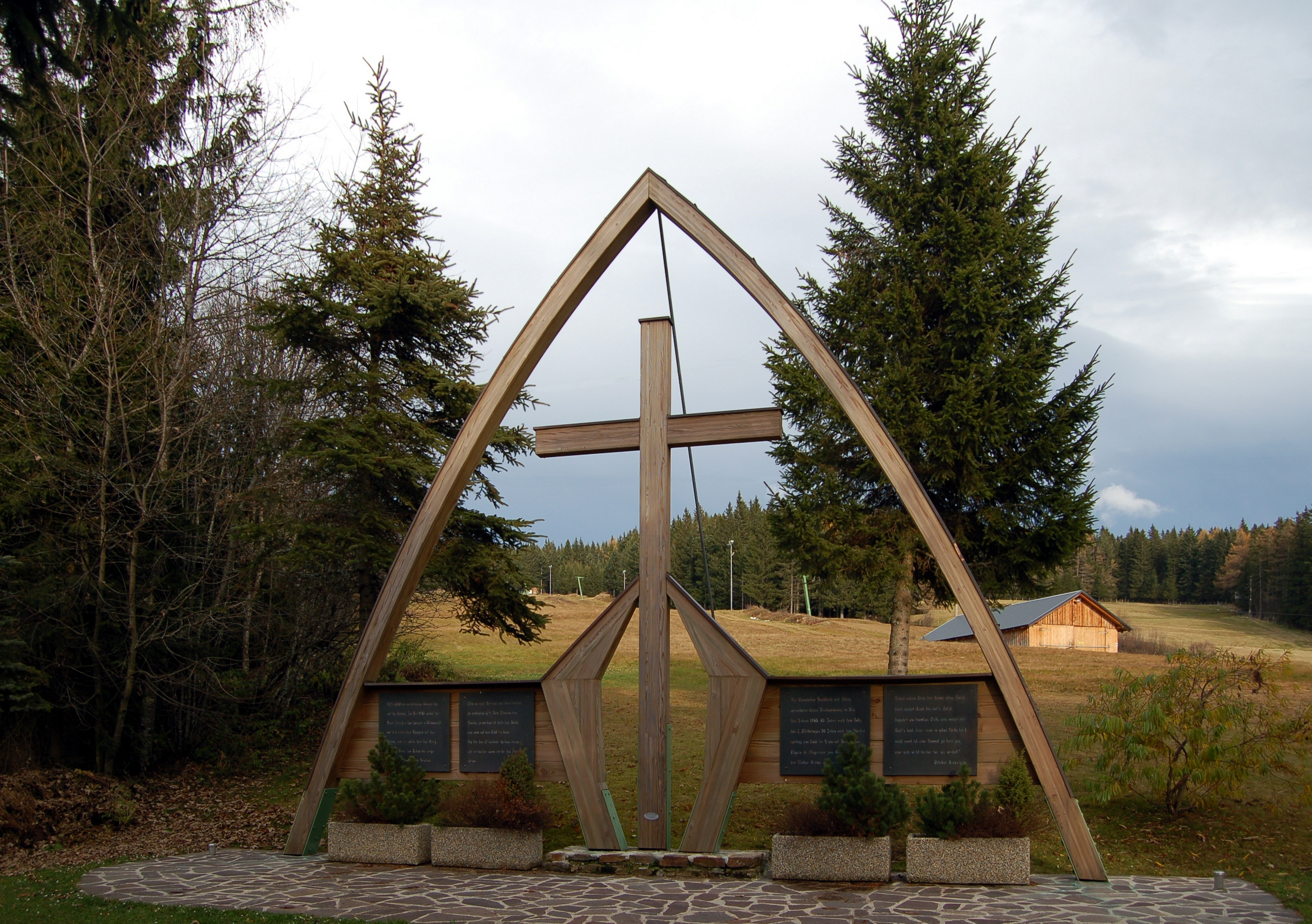 The Friedenskreuz (peace cross) at the Schanzsattel, a mountain pass in Styria, Austria. Built in 1985.